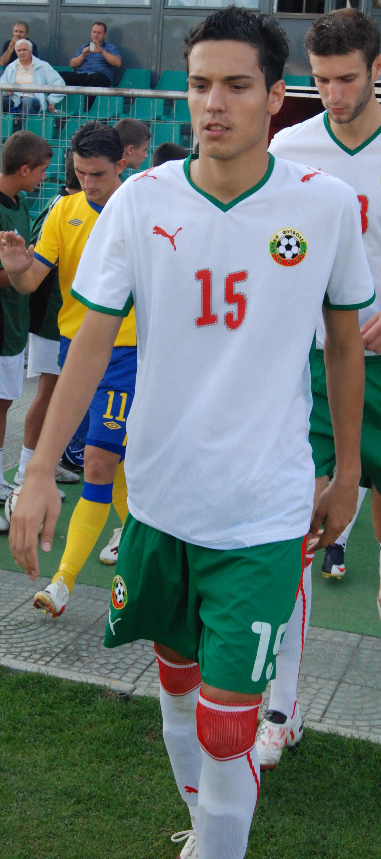 Georgi Milanov